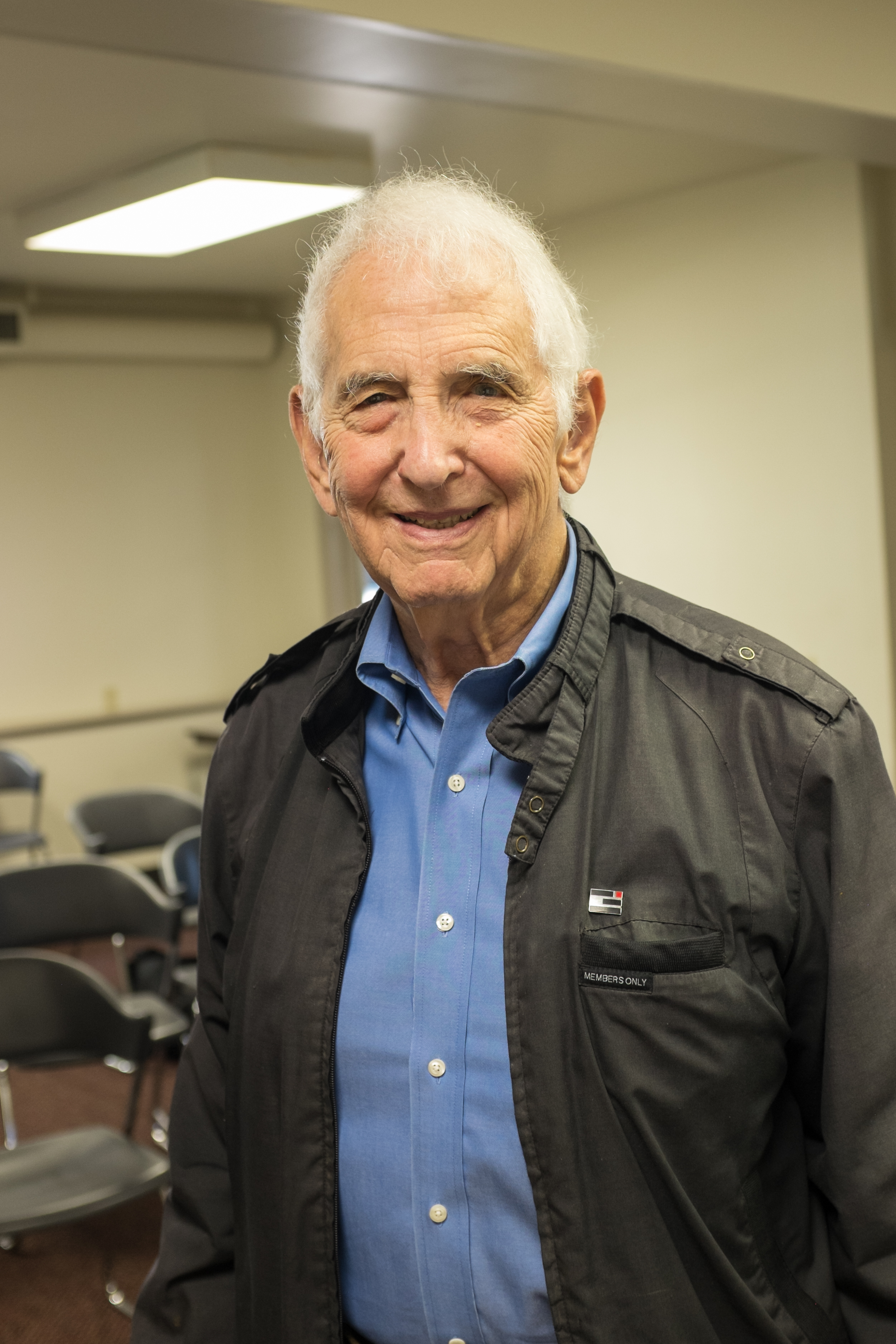 Taken in 2018